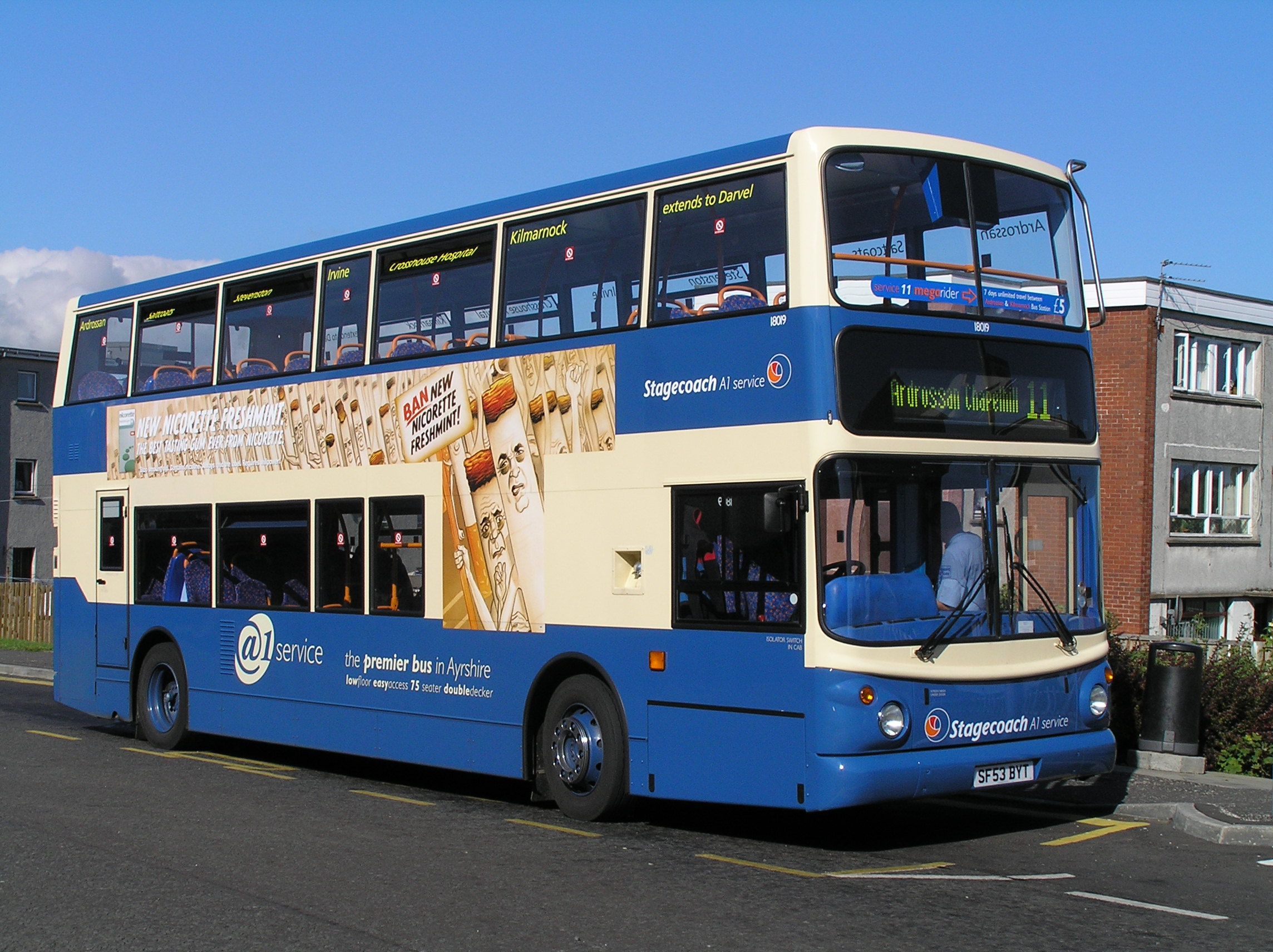 A Stagecoach A1 Service Transbus Trident bus in Ardrossan, Ayrshire